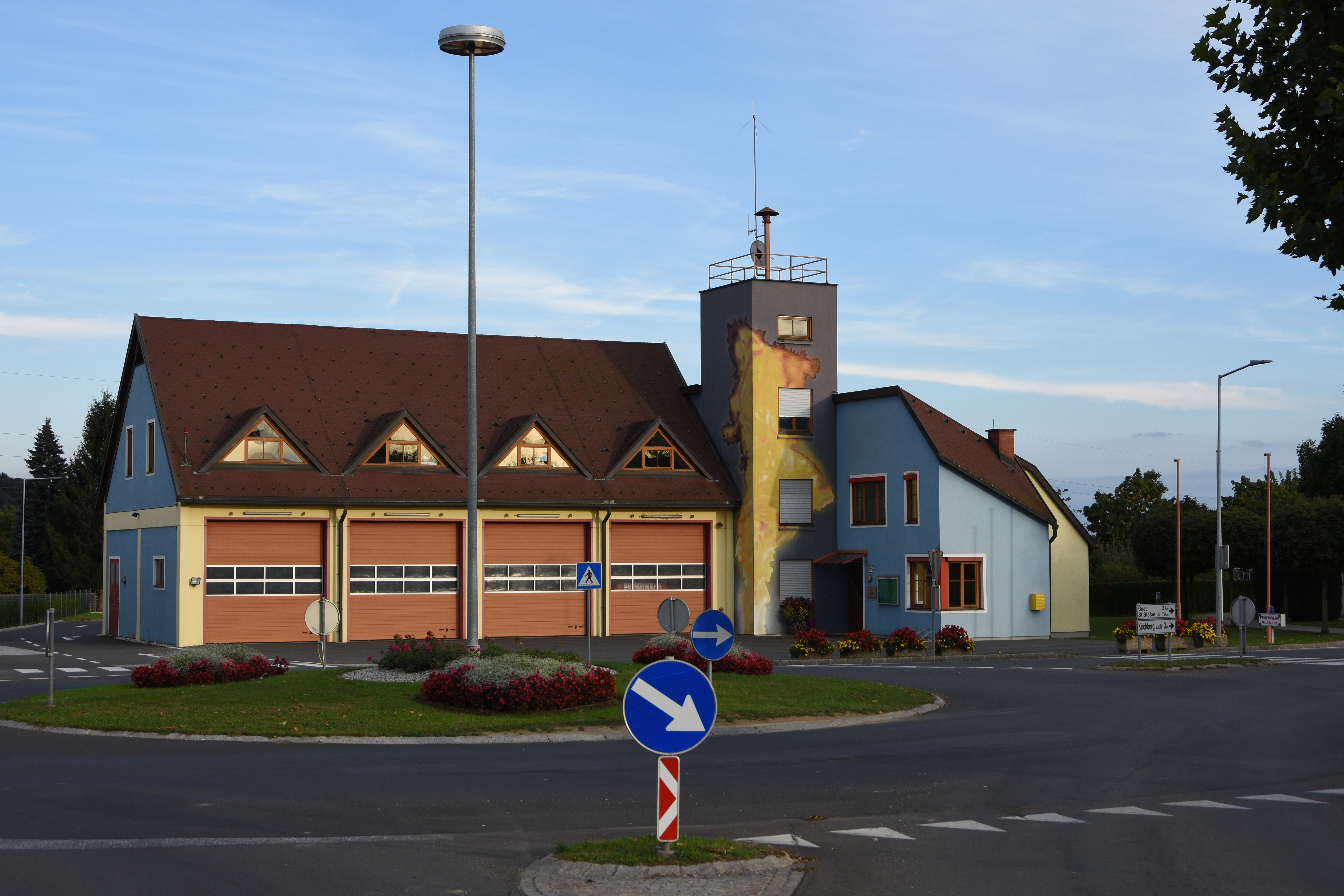 Studenzen